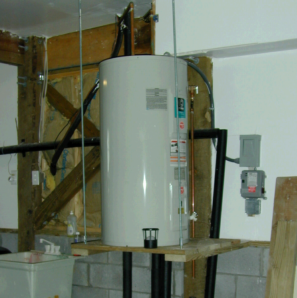 Southport, NC, October 4, 1999 -- Elevating utilites, such as this hot water heater, on the ground floor or basement of a home often prevents costly replacement of items after a flood or other high water. Photo By DAVE SAVILLE/ FEMA News Photo